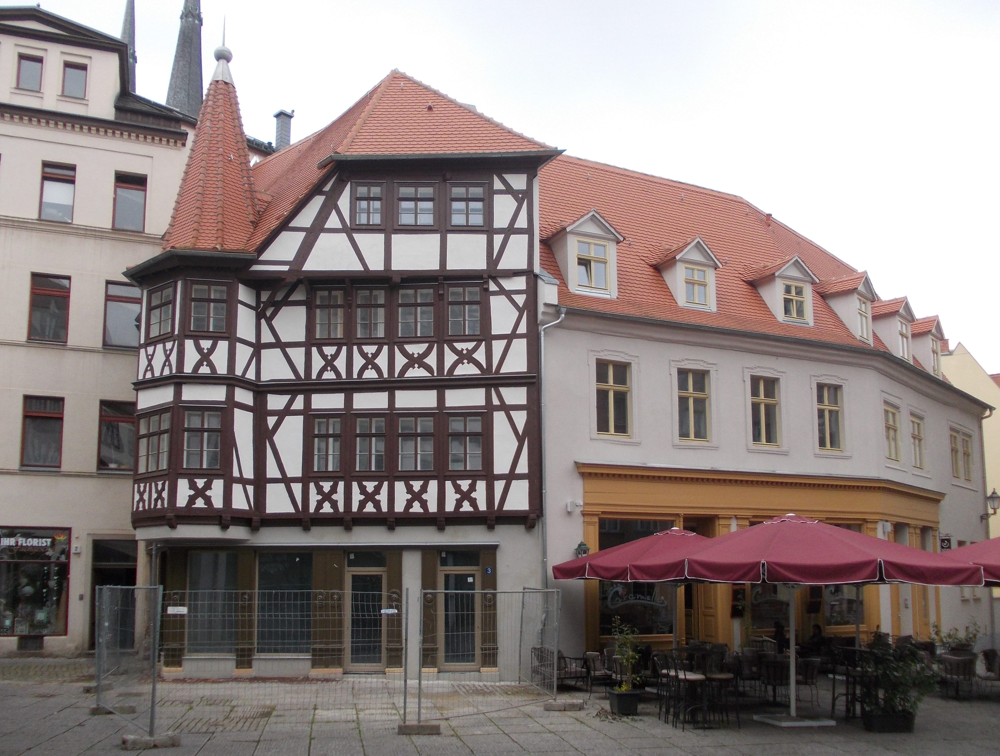 The Grashof in Halle/Saale (Saxony-Anhalt) in September 2014